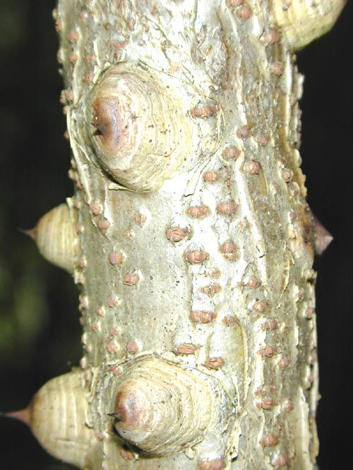 Close up of Caesalpinia decapetala stem showing spines and lenticels.